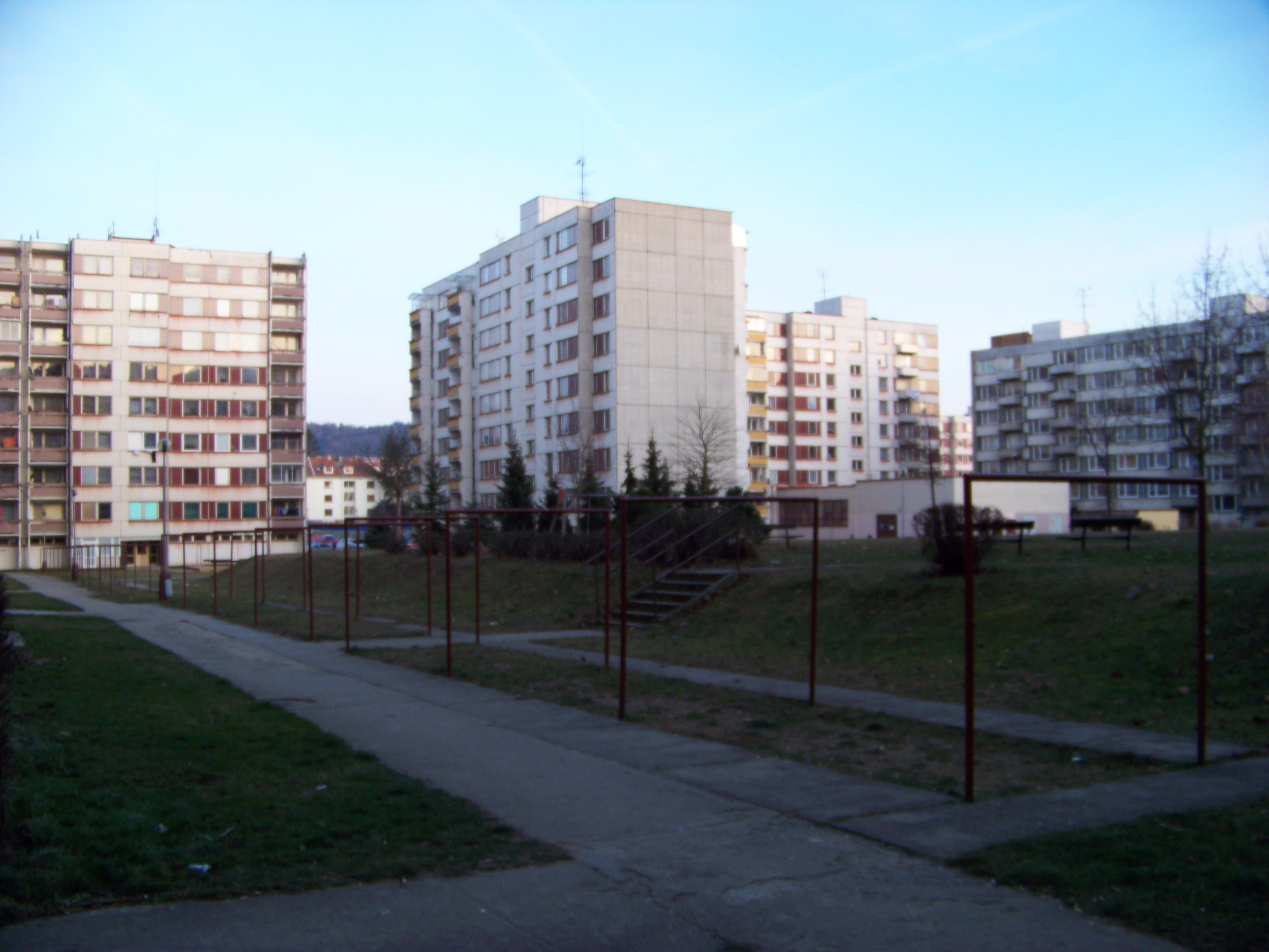 Písek-Pražské Předměstí, Písek District, South Bohemian Region, the Czech Republic. Portyč Housing Estate. - OpenStreetMap(Info)